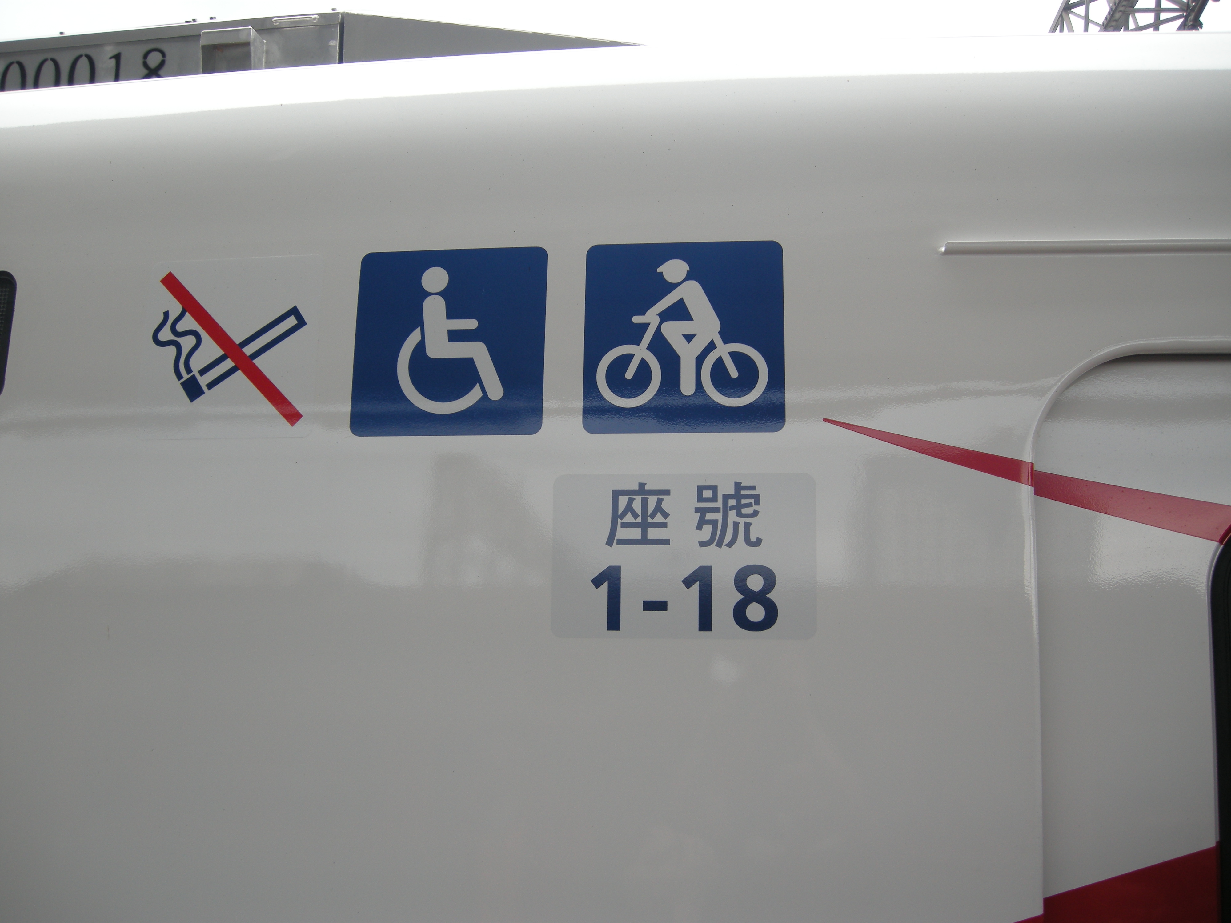 Taiwan Railway TEMU2000 series Accessibility and Bicycle Logo.